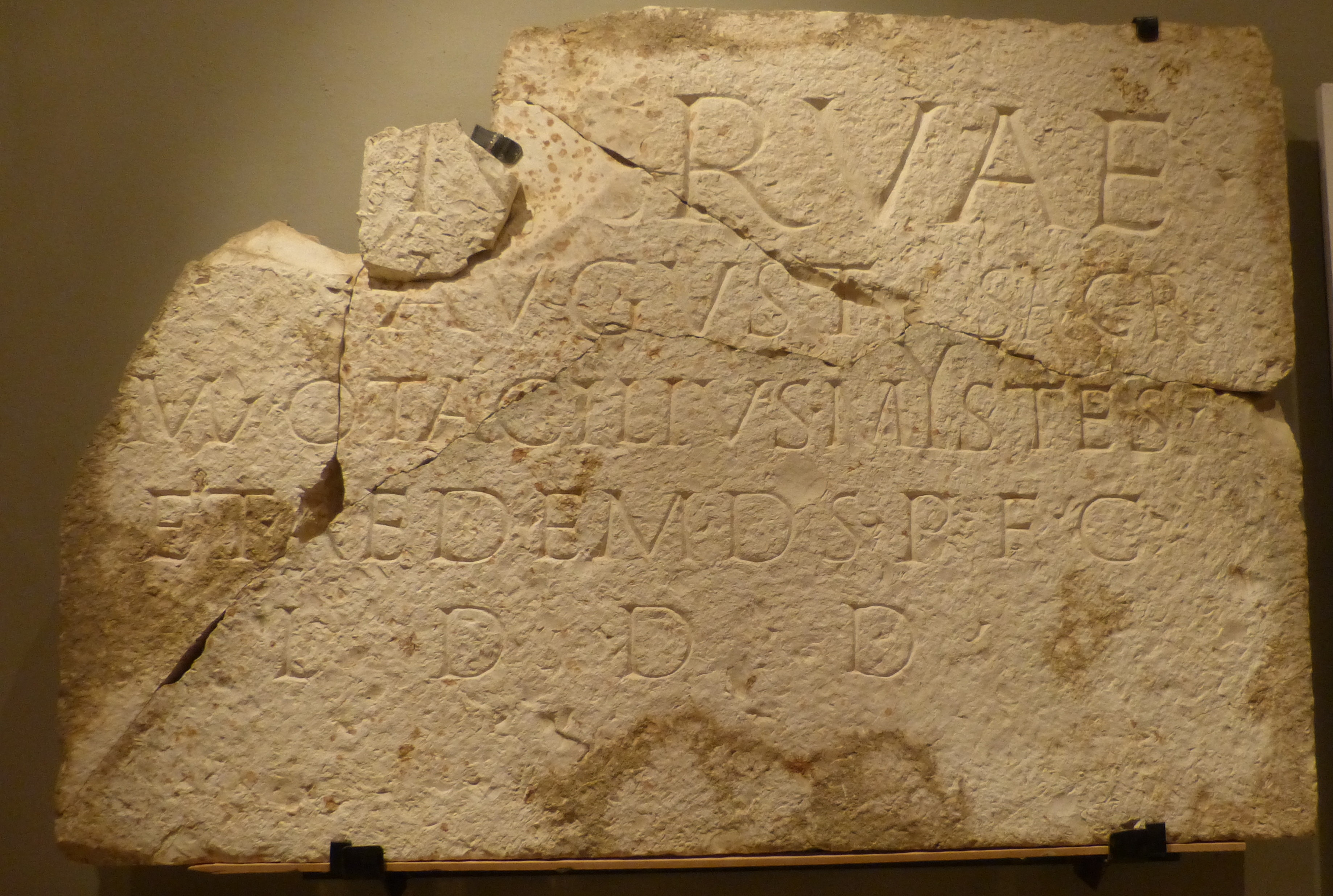 Butrint (Albania). Museum: Latin inscription ( 1st/2nd century AD ) from the Ancient Roman forum in Butrint: "[M]inervae / August(ae) sacr(um) / M(anius) Otacilius Mystes / et aedem d(e) s(ua) p(ecunia) f(aciendam) c(uravit) / l(ocus) d(atus) d(ecreto) d(ecurionum)".